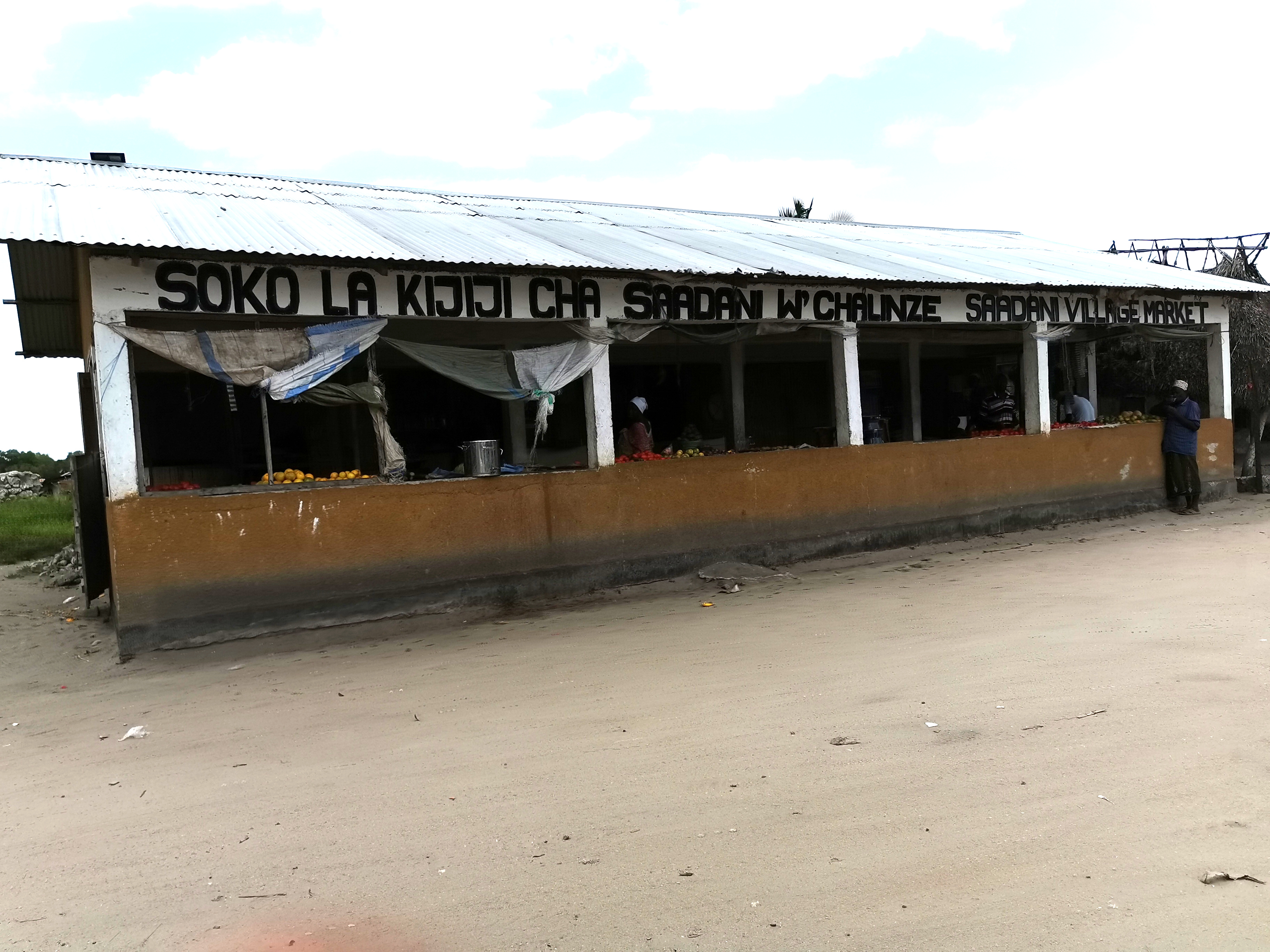 Saadani, new market